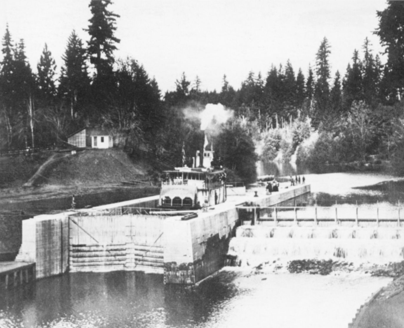 The steamer Bonita, transiting the Yamhill River Lock, September 24, 1900 (first steamboat to do so)